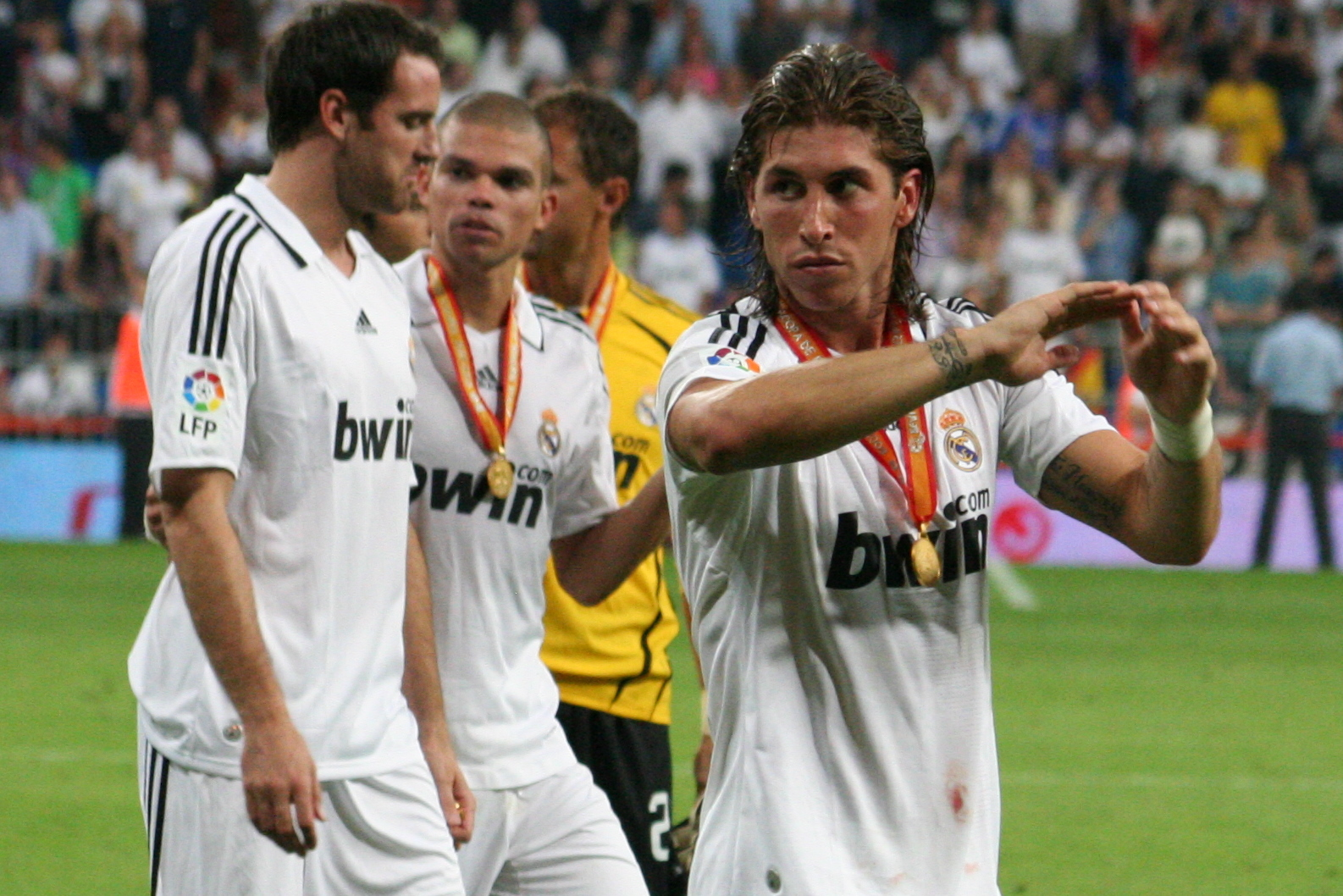 Ramos celebrates with his teammates.